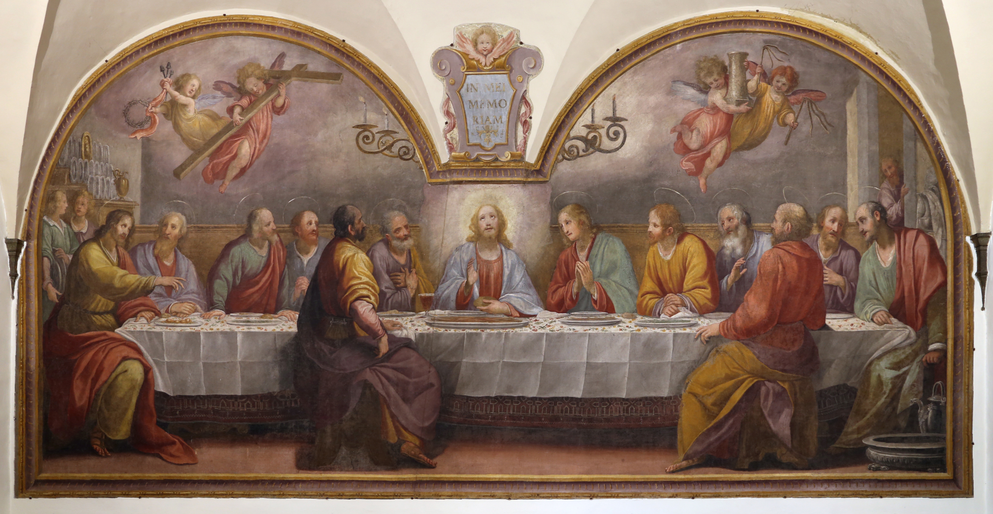 Last Supper by Matteo Rosselli (Santa Maria degli Angiolini, Florence)